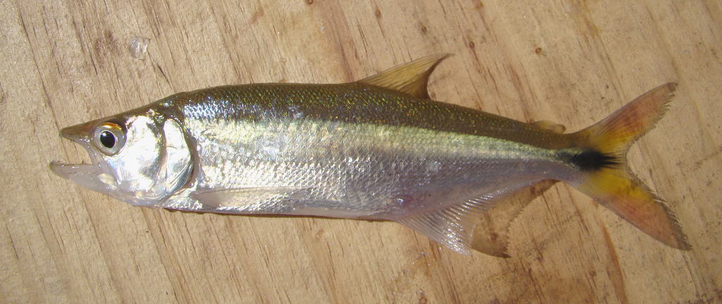 Oligosarcus robustus from São Lourenço River, Rio Grande do Sul, Brazil, photographed on February 2009.